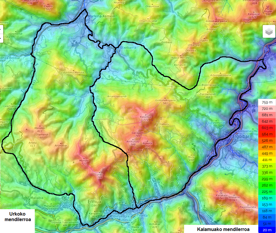 Topographic map showing the Urko and Kalamua Ranges.